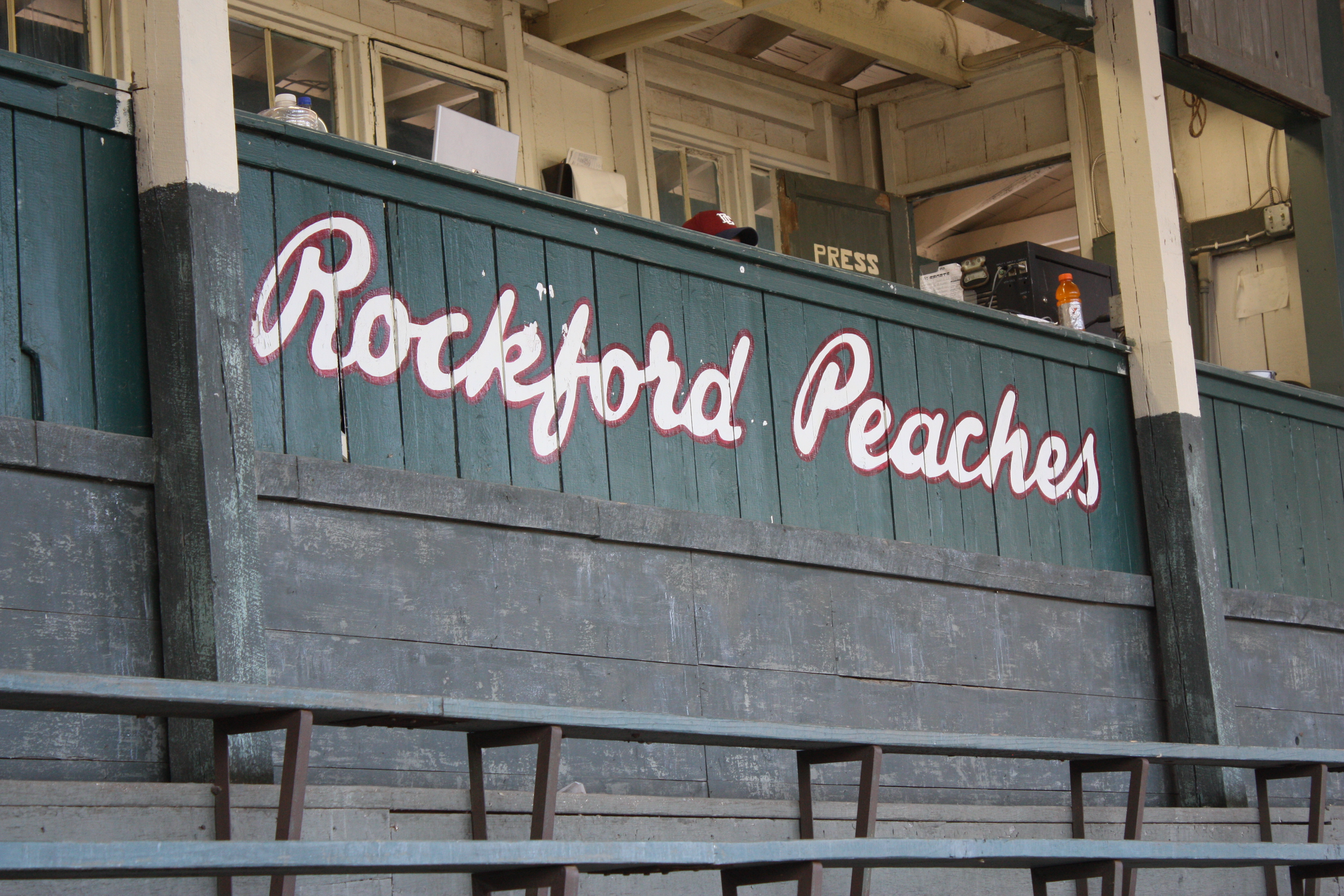 League Stadium in Huntingburg Indiana. Home of the Dubois County Bombers, it was the filming location for 1991 film, "A League of Their Own" and the 1995 film, "Soul of the Game". The ballpark was rebuilt for filming "A League of Their Own" and still features artwork and stadium advertising created for the film. Here, the "Rockford Peaches" were a women's baseball team featured in the film.